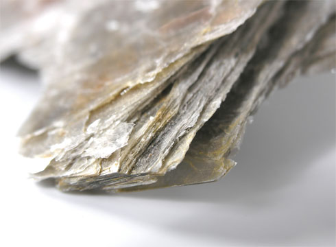 Mica group